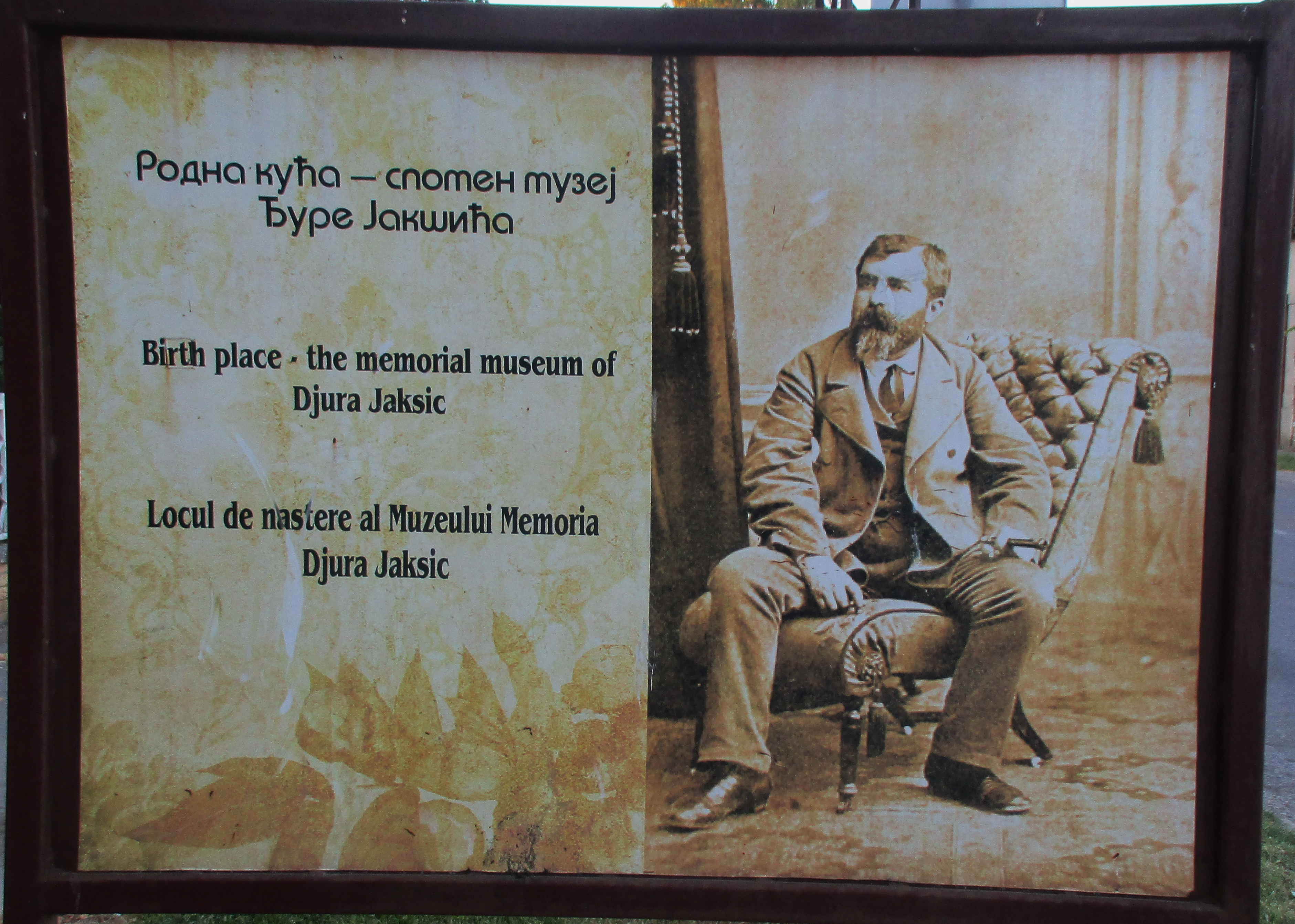 The birth place of Serbian famous poet and painter Đura Jakšić is a museum. The board is in front of it.